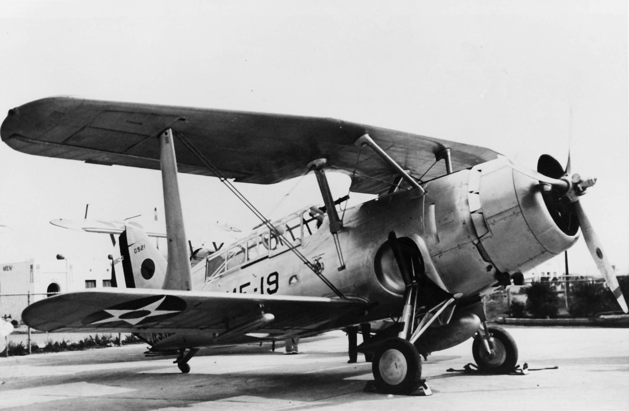 A U.S. Marine Corps Curtiss SBC-3 Helldiver (BuNo 0521) pictured during its service as a utlility aircraft with Marine fighting squadron VMF-2, circa late 1930s. This aircraft was stricken from the U.S. Navy inventory on 28 February 1942.